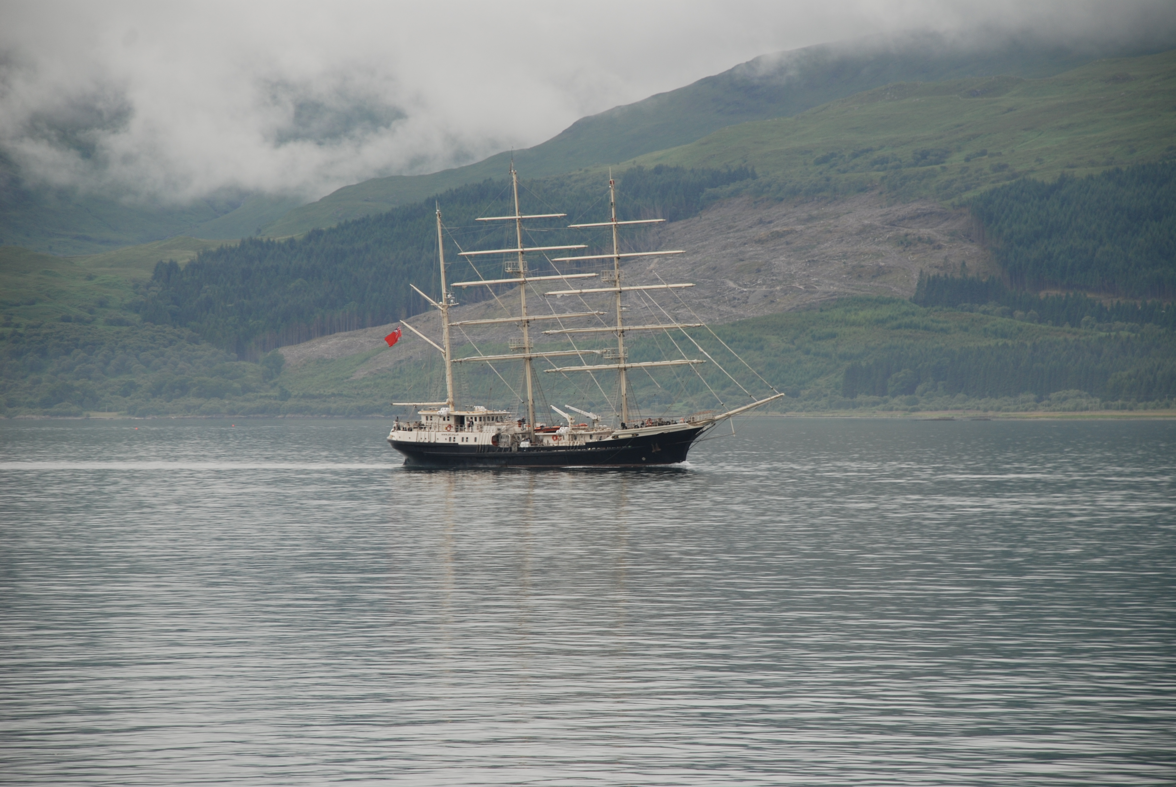 SV Tenacious of the Jubilee Sailing Trust in the Sound of Mull. Photographed from the Fishnish to Lochaline ferry.